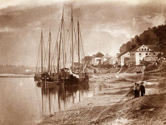 Cargo riverboats in Aleksotas, suburb of Kaunas.